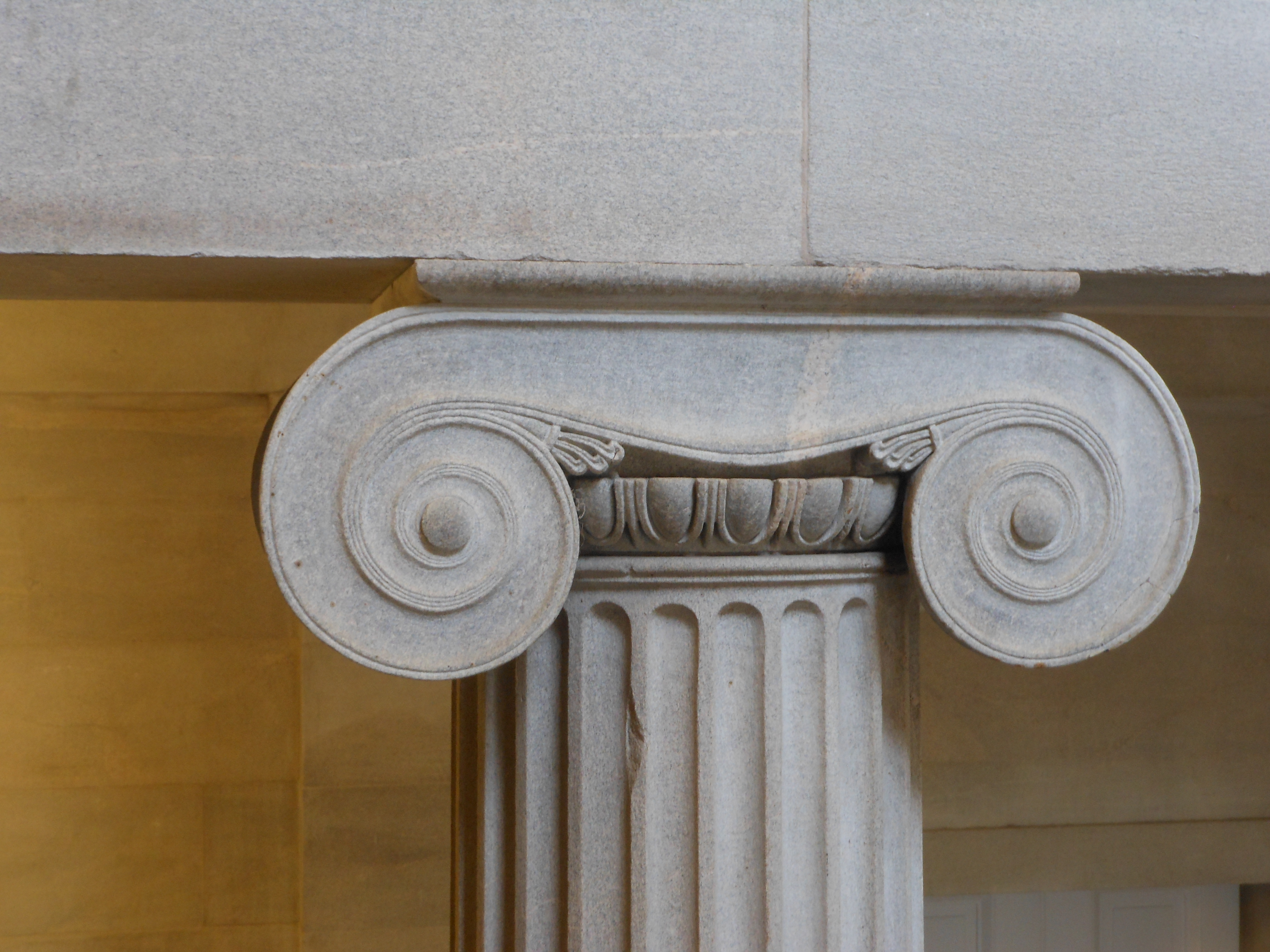 Closeup of Ionic Order Column Greek Style